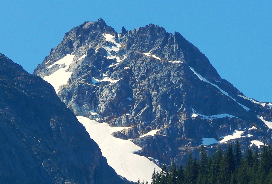 Pinnacle Peak 7380' seen from Diablo. North Cascades